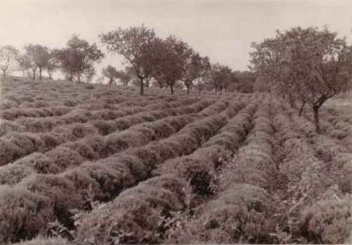 Old shot of lavendarfield in tihany